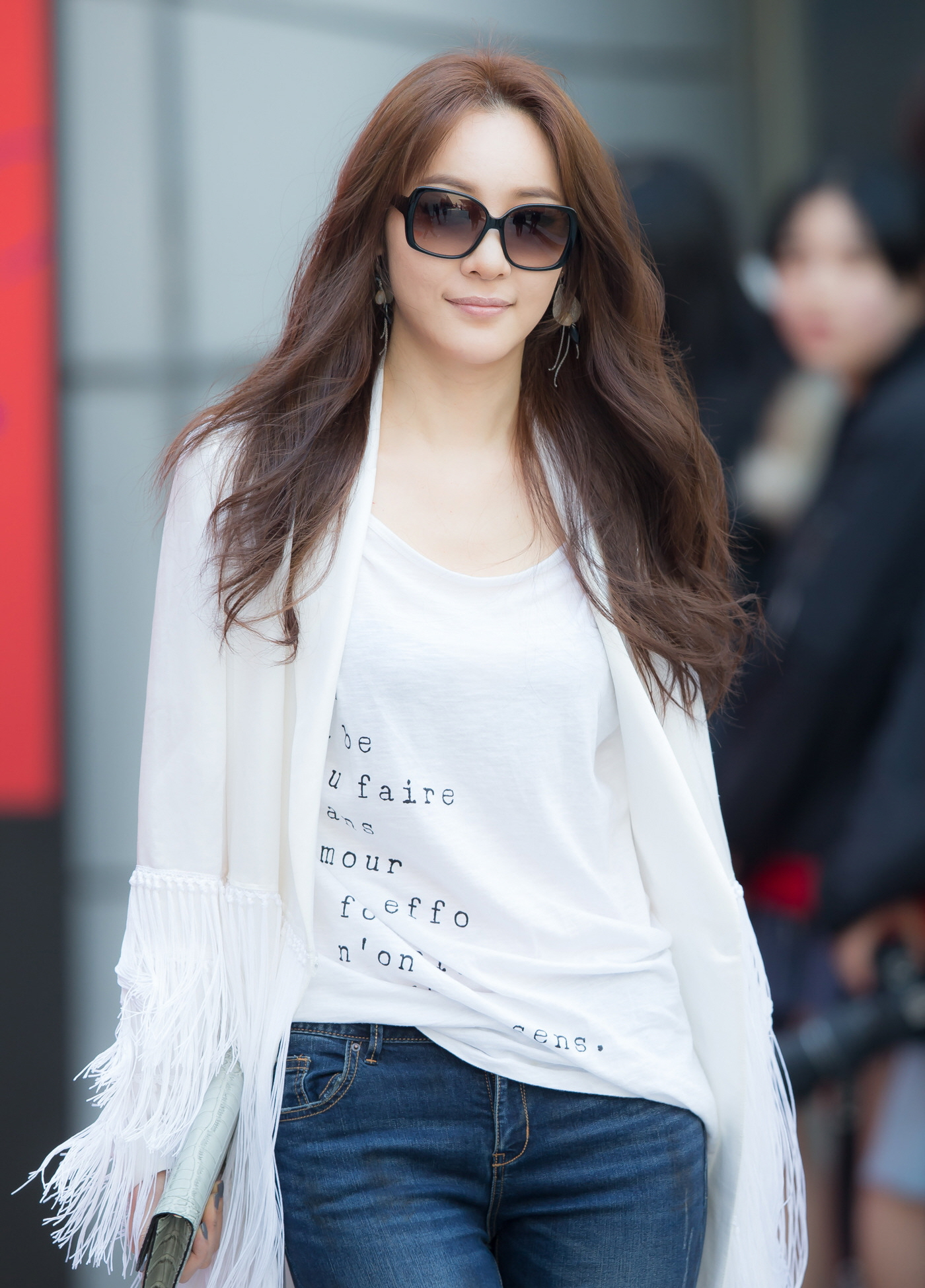 160326 16 F/W 서울패션위크 포토월